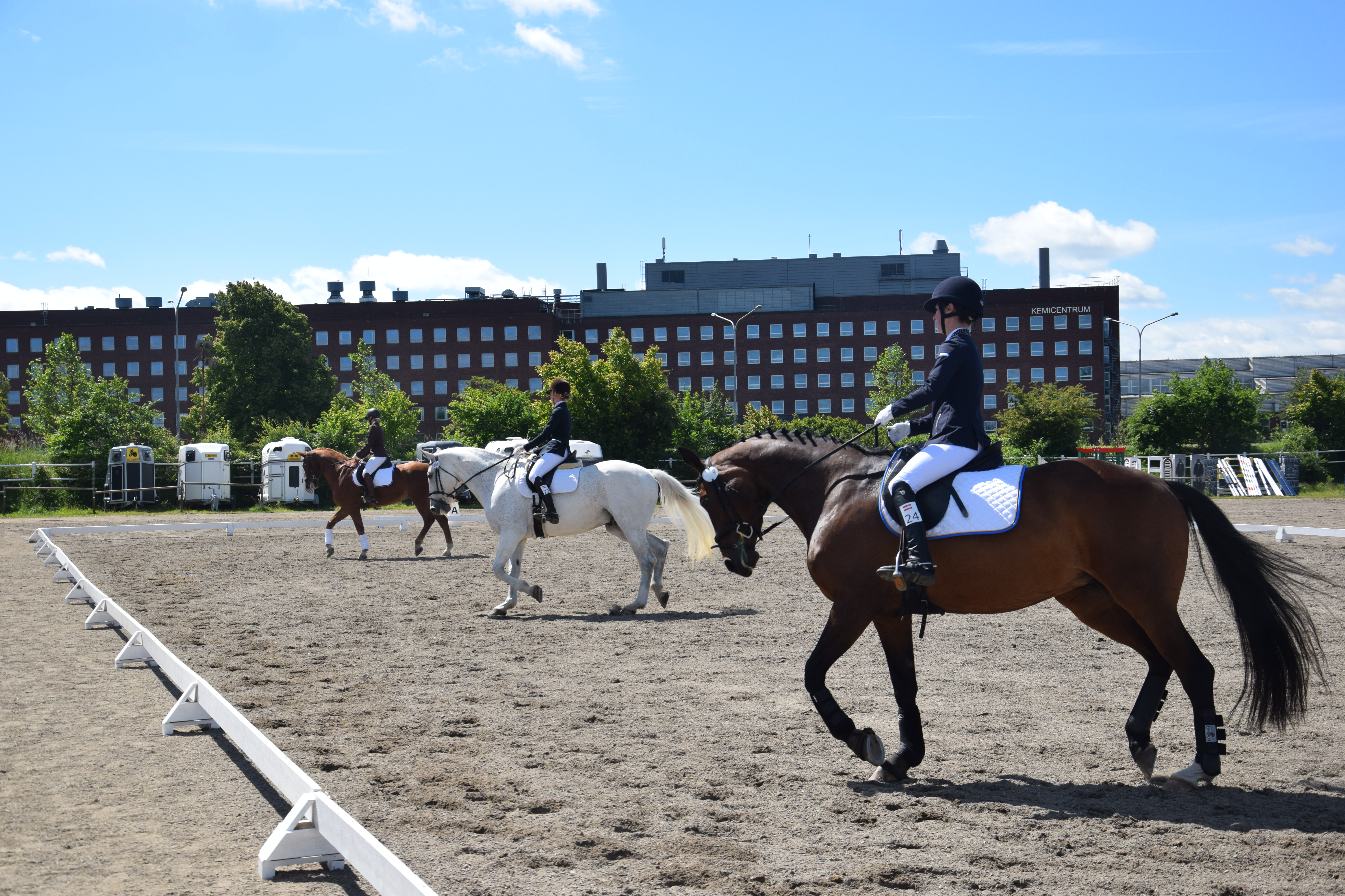 SRNC Lund 2015. Studentriders in the 1st dressage round.